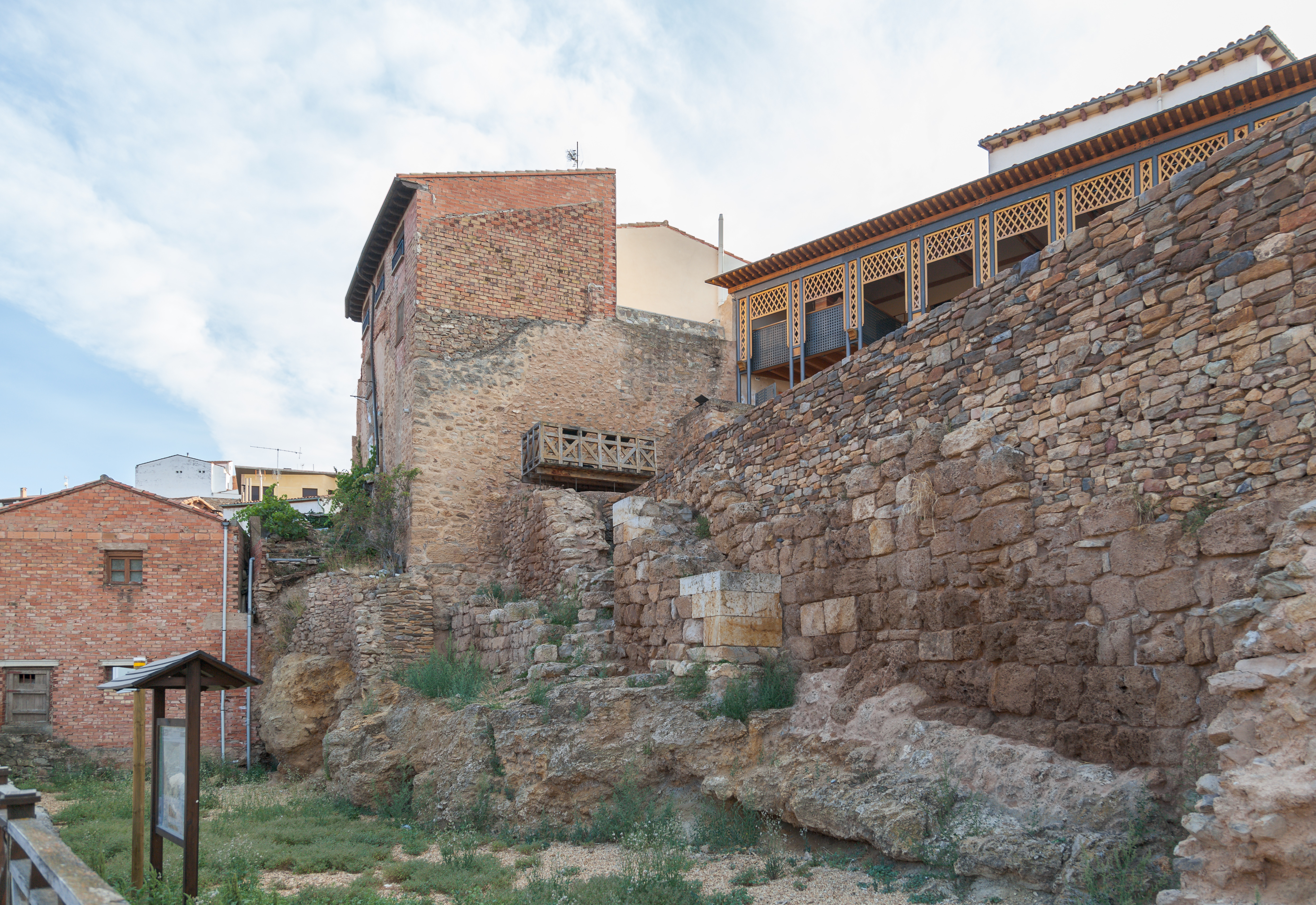 Arabic wall, Ágreda, Spain